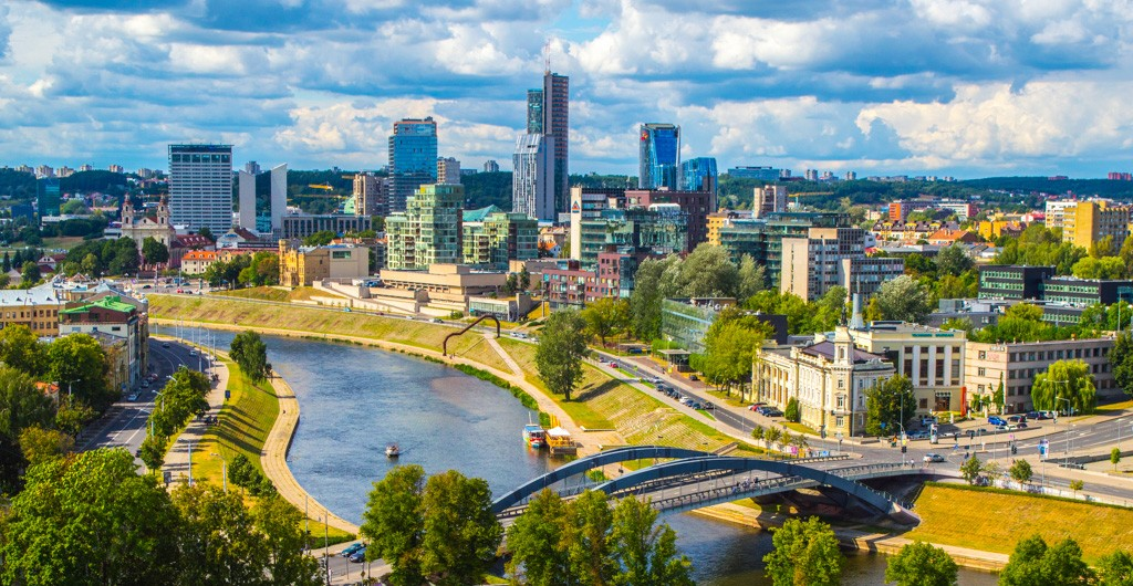 Vilnius skyline